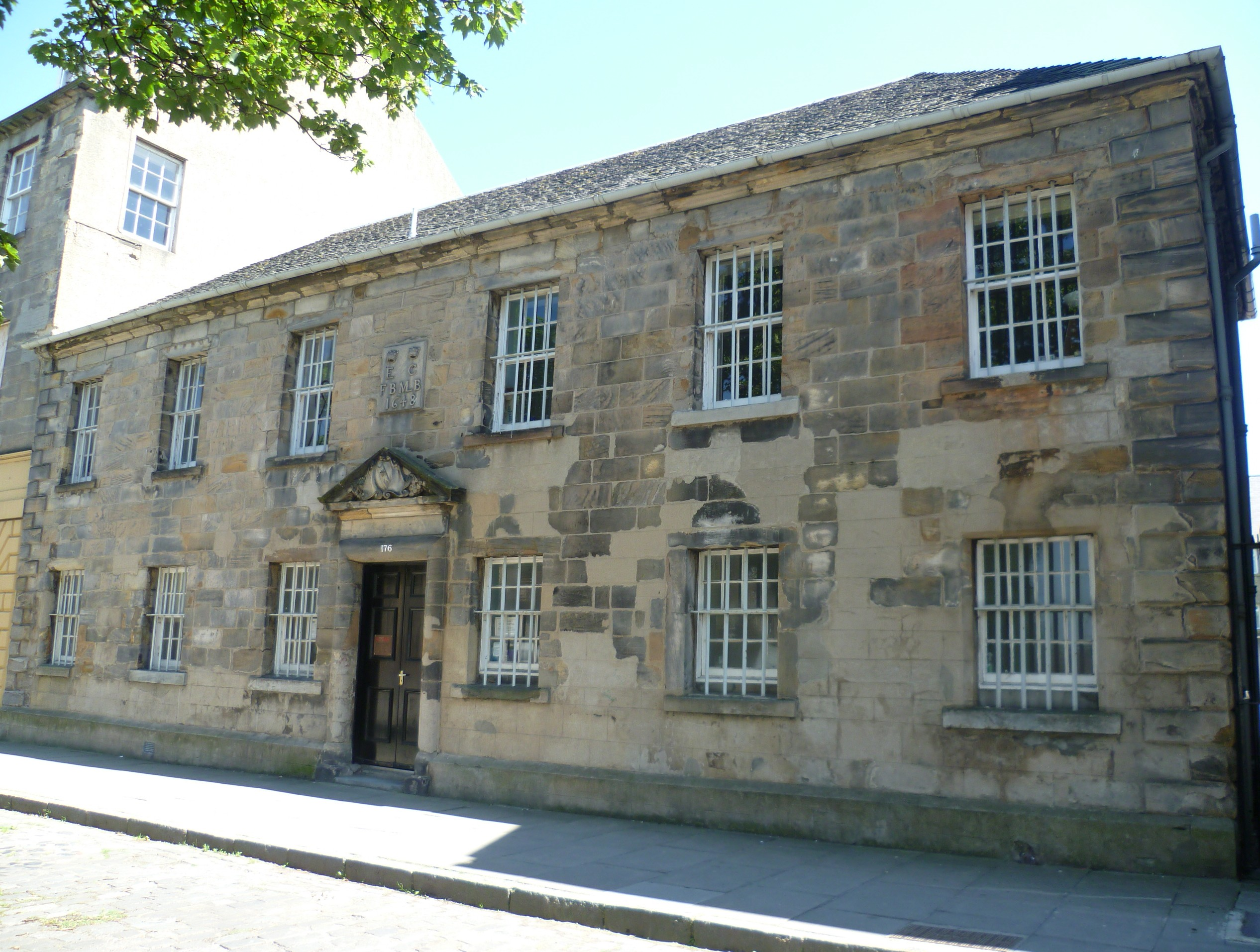 The 18thC building bears a tablet from the Old Tolbooth on the site, dated 1648. The last public hanging in Dalkeith took place at the front of the building in 1827.